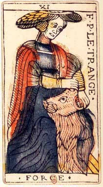 An original card from the tarot deck of Jean Dodal of Lyon, a classic Tarot of Marseilles deck which dates from 1701-1715.